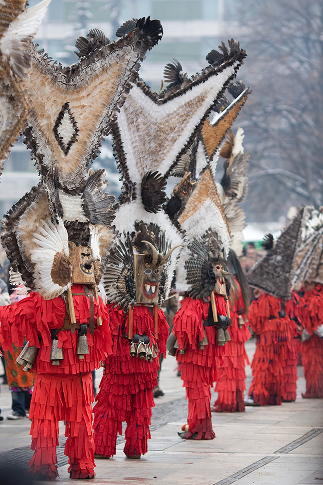 Kuker masks. XIX International Festival of Masquerade Games Pernik, 2010